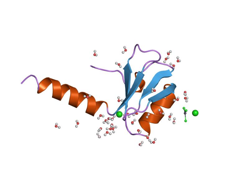 Cartoon representation of the molecular structure of protein registered with 1tif code.